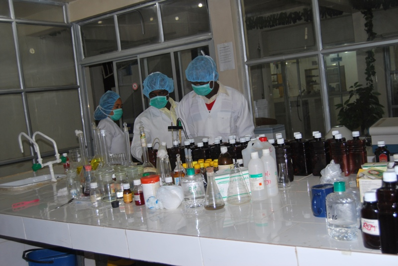 Paxherbals researchers at work 2